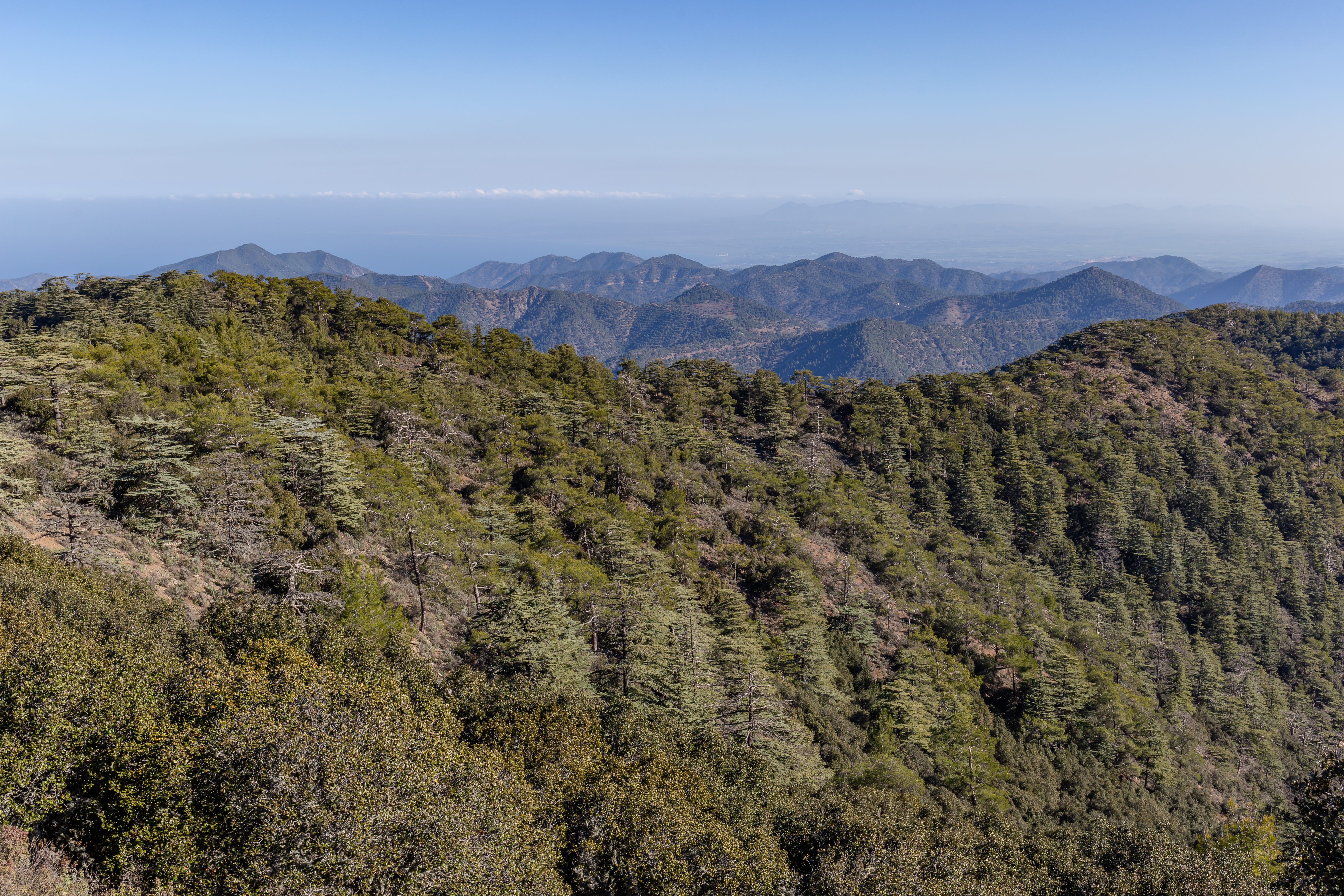 Cedar trees and pines on slopes of Mt Tripylos, Troodos Mountains, Cyprus